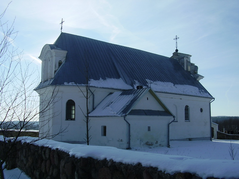 Saint Nickolas Roman Catholic church (built in 1782), Lukonica village, Zeĺva District